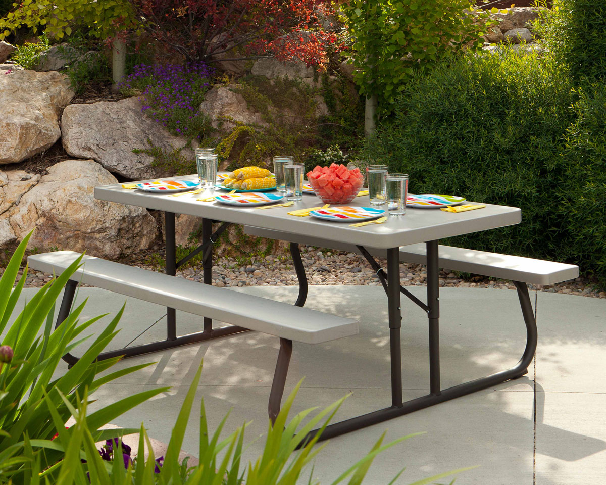 Lifetime Picnic Table